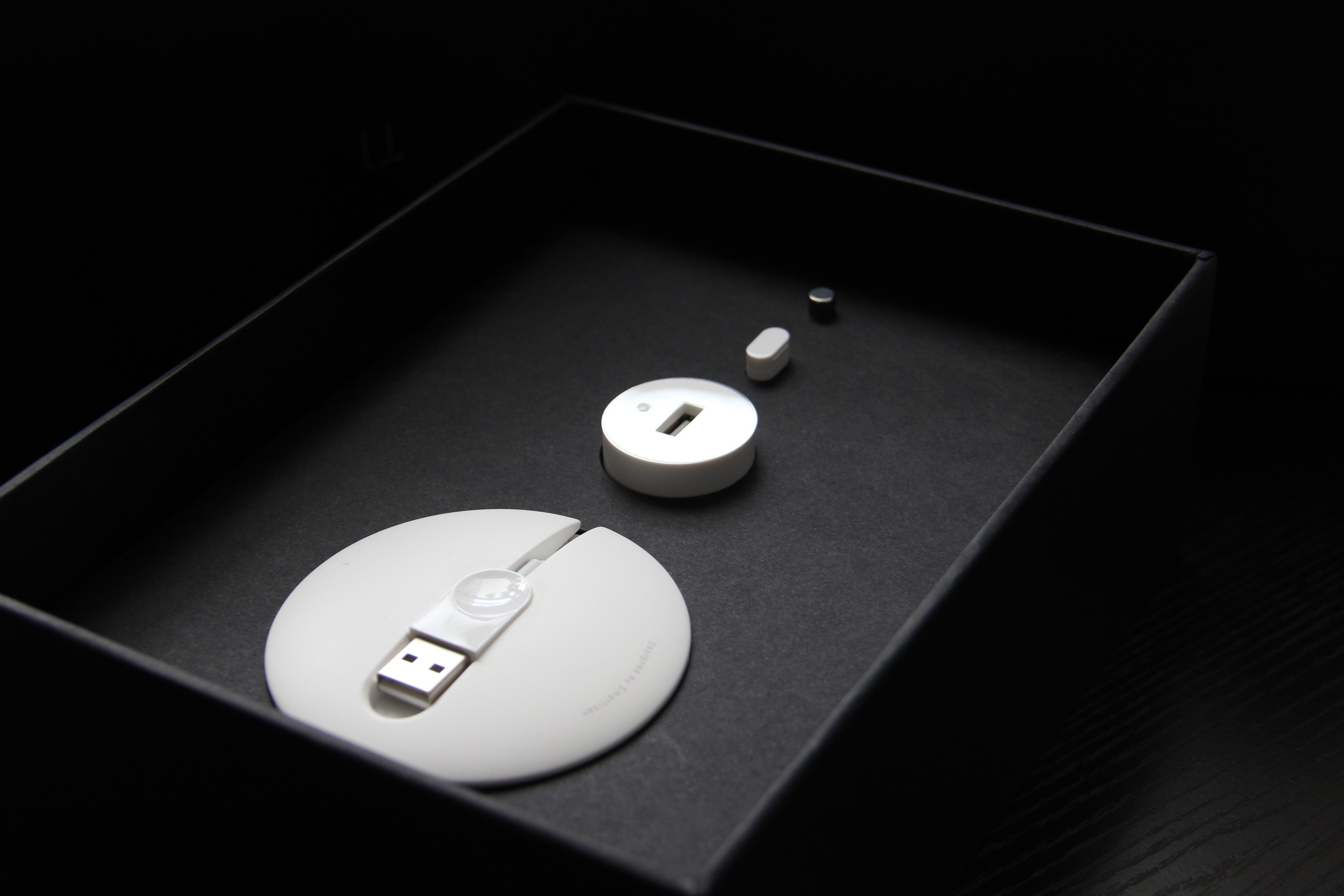 Smartisan T1 accessories in the box